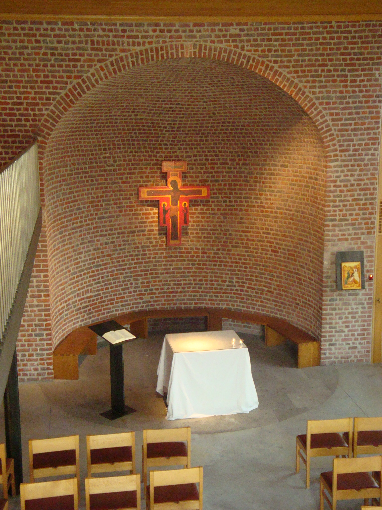 Chapelle de la Résurrection, rue Van Maerlantstraat 22-24 B-1040 Brussel Bruxelles, Interior: liturgical main room (altar)